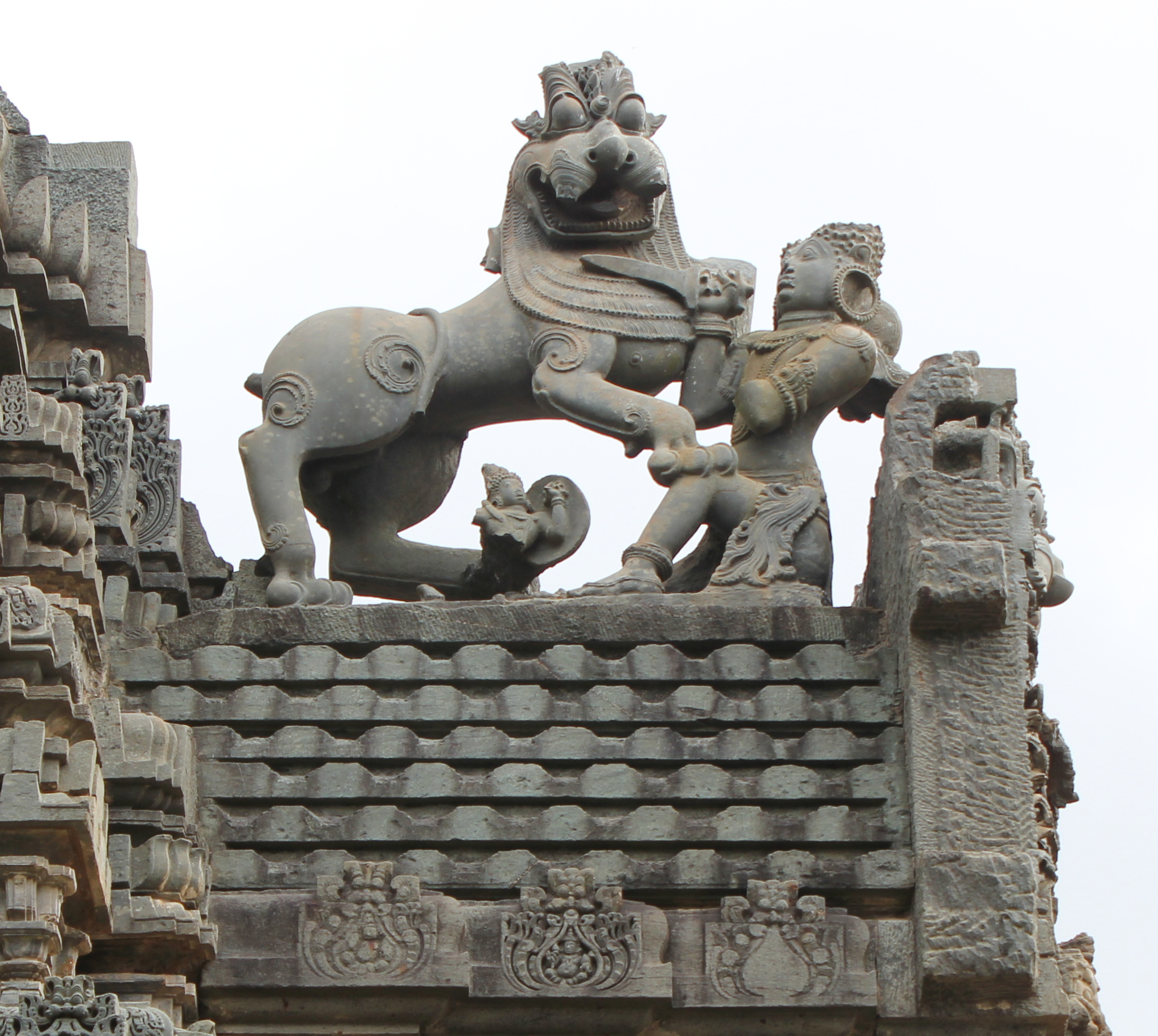 This photograph was taken by me at the Kedareshvara temple (also spelt Kedaresvara or Kedareshwara) in Balligavi (also called variously as Belgami, Belligave, Balligamve and Ballipura in ancient inscriptions) in the Shimoga district of Karnataka state, India. The temple was built in the late 11th century by the Western Chalukya Empire rulers with architectural updates into the first half of 12th century during the rule of Hoysala Empire.